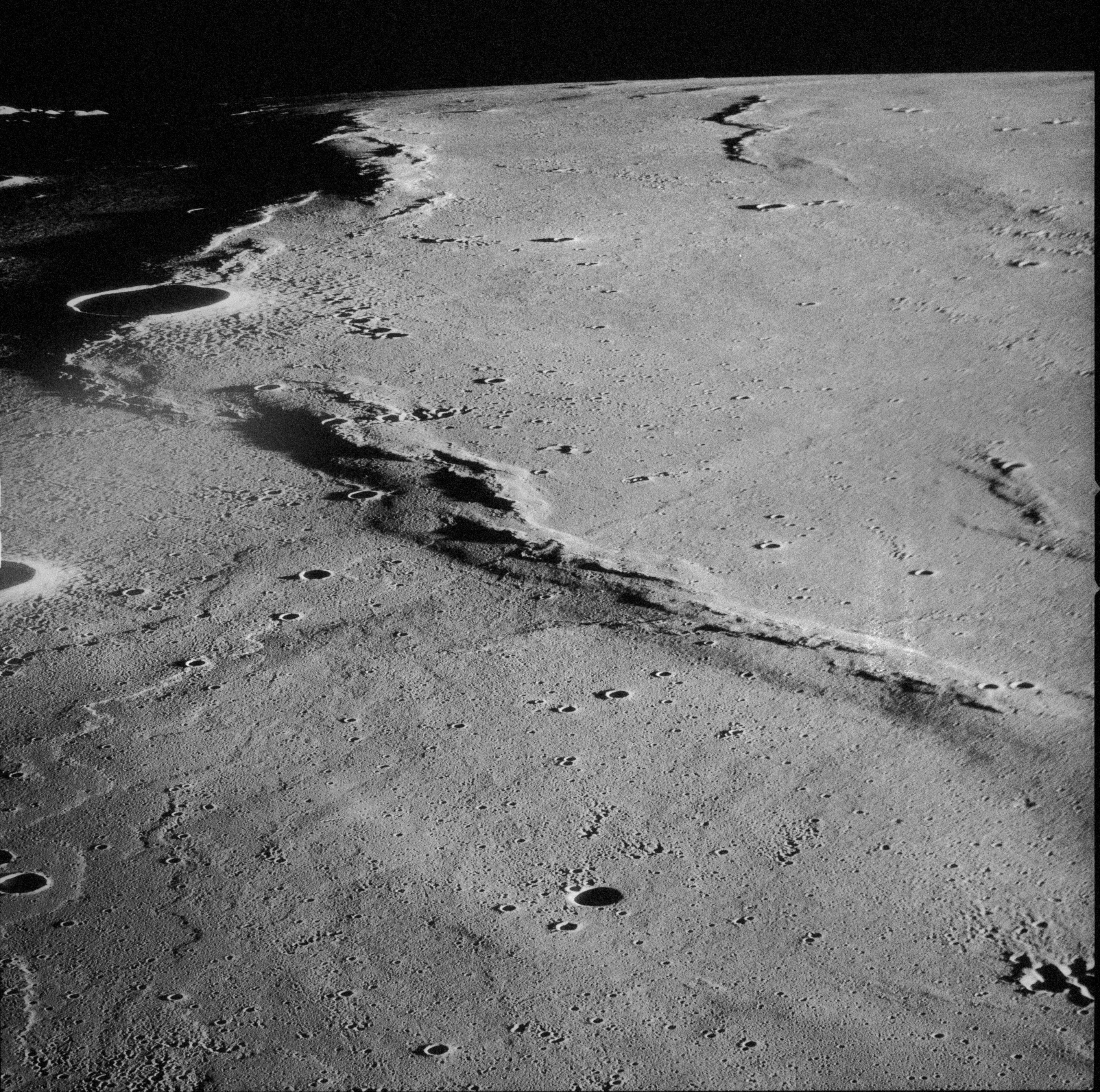 Dorsum Heim in Mare Imbrium, the moon. This photo was used in Figure 4-51 of the Apollo 17 Preliminary Science Report (SP-330, 1973), which has the following caption:Near-terminator photograph in Mare Imbrium. The very low angle of Sun illumination emphasizes topographic detail in this north-looking, high-oblique view of the crater C. Herschel and associated mare ridges. C. Herschel, approximately 15 km in diameter, is located at latitude 34.5°N, longitude 31°W.